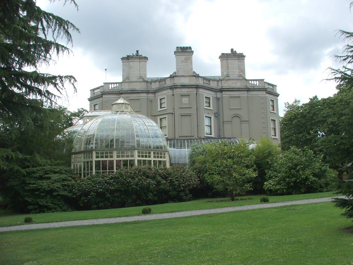 Side elevation with conservatory, Farmleigh (Dublin)